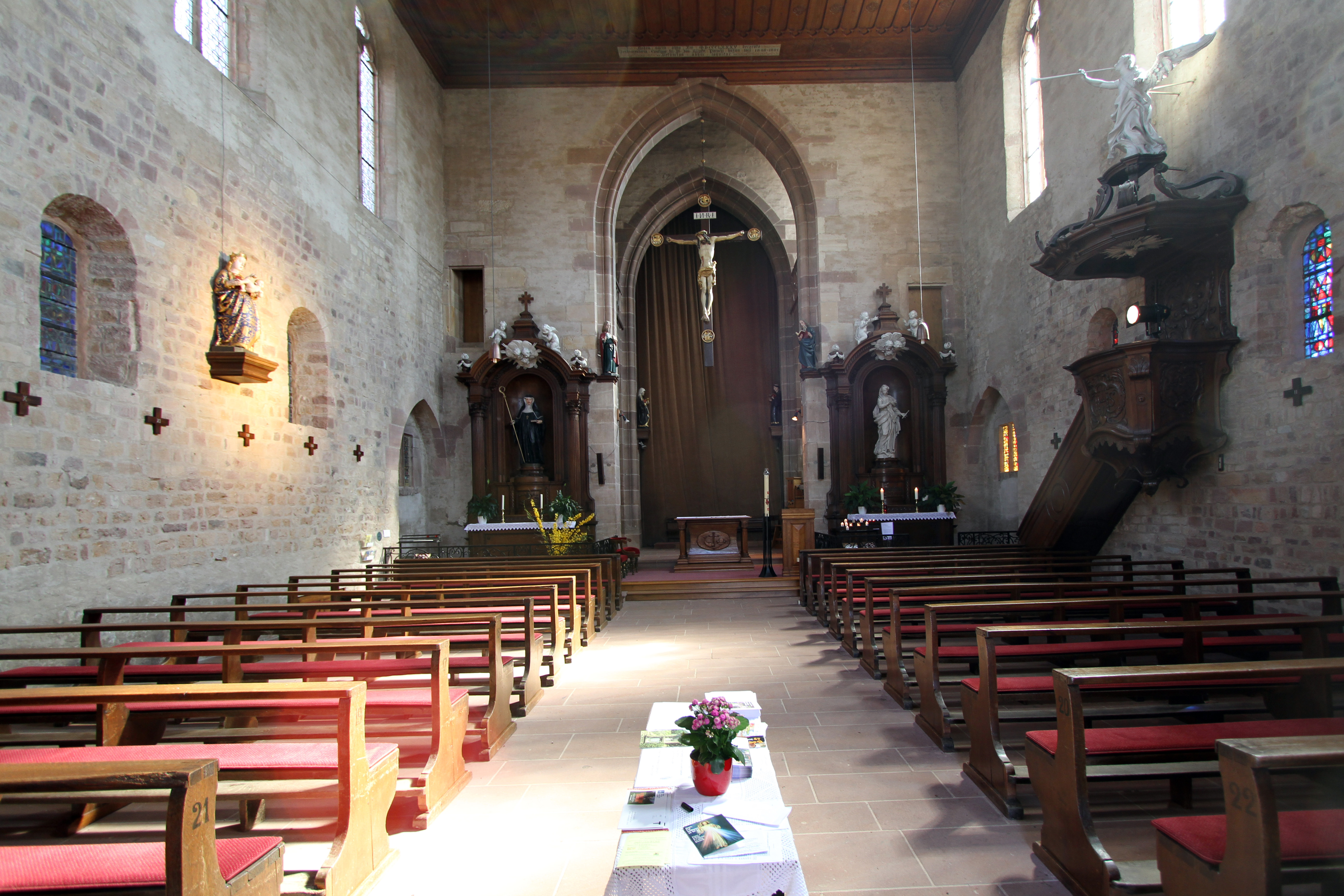 Church of Saint Walburg in Walbourg, interior decoration